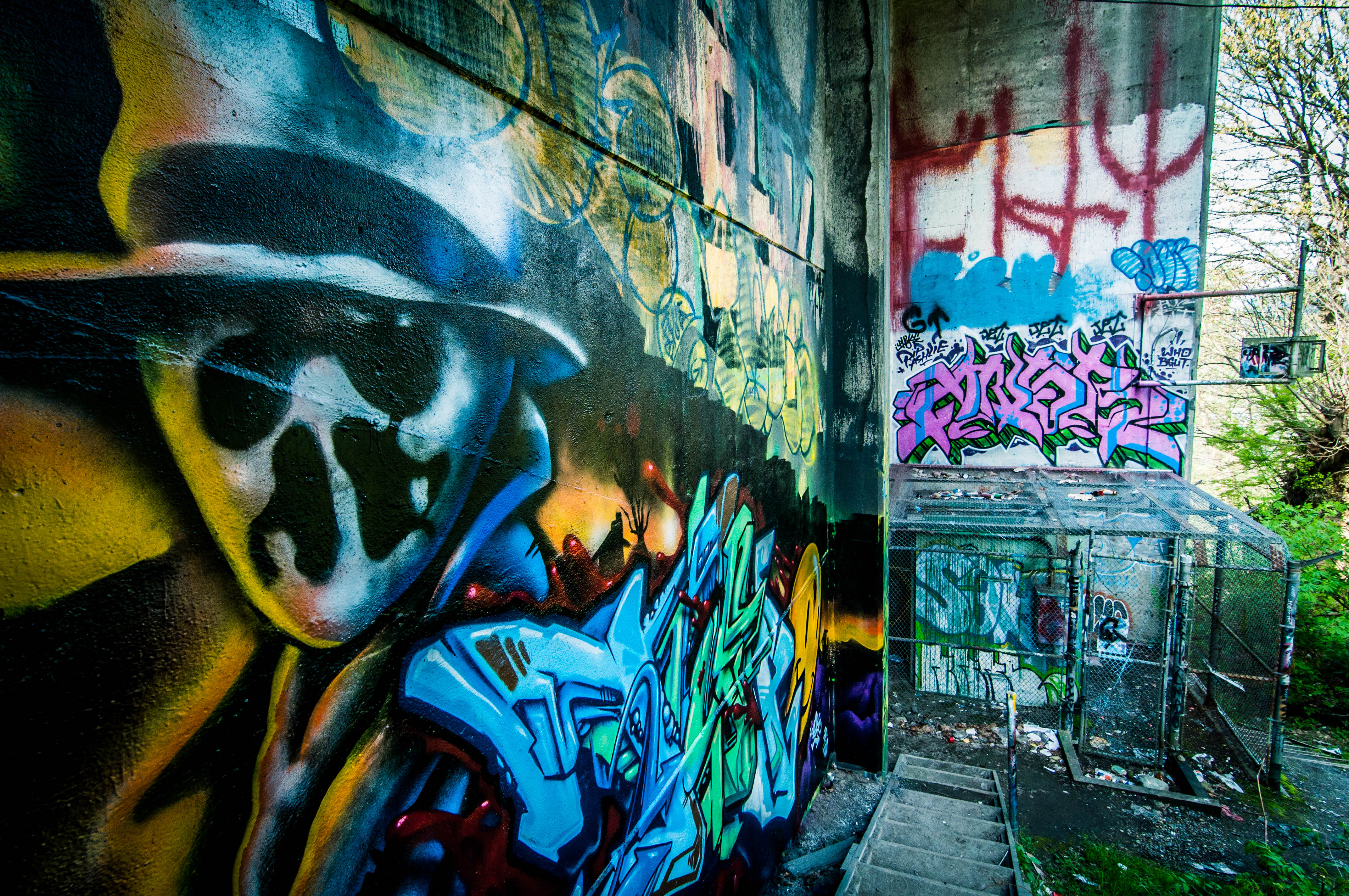 Watchmen, Second Narrows graffiti.